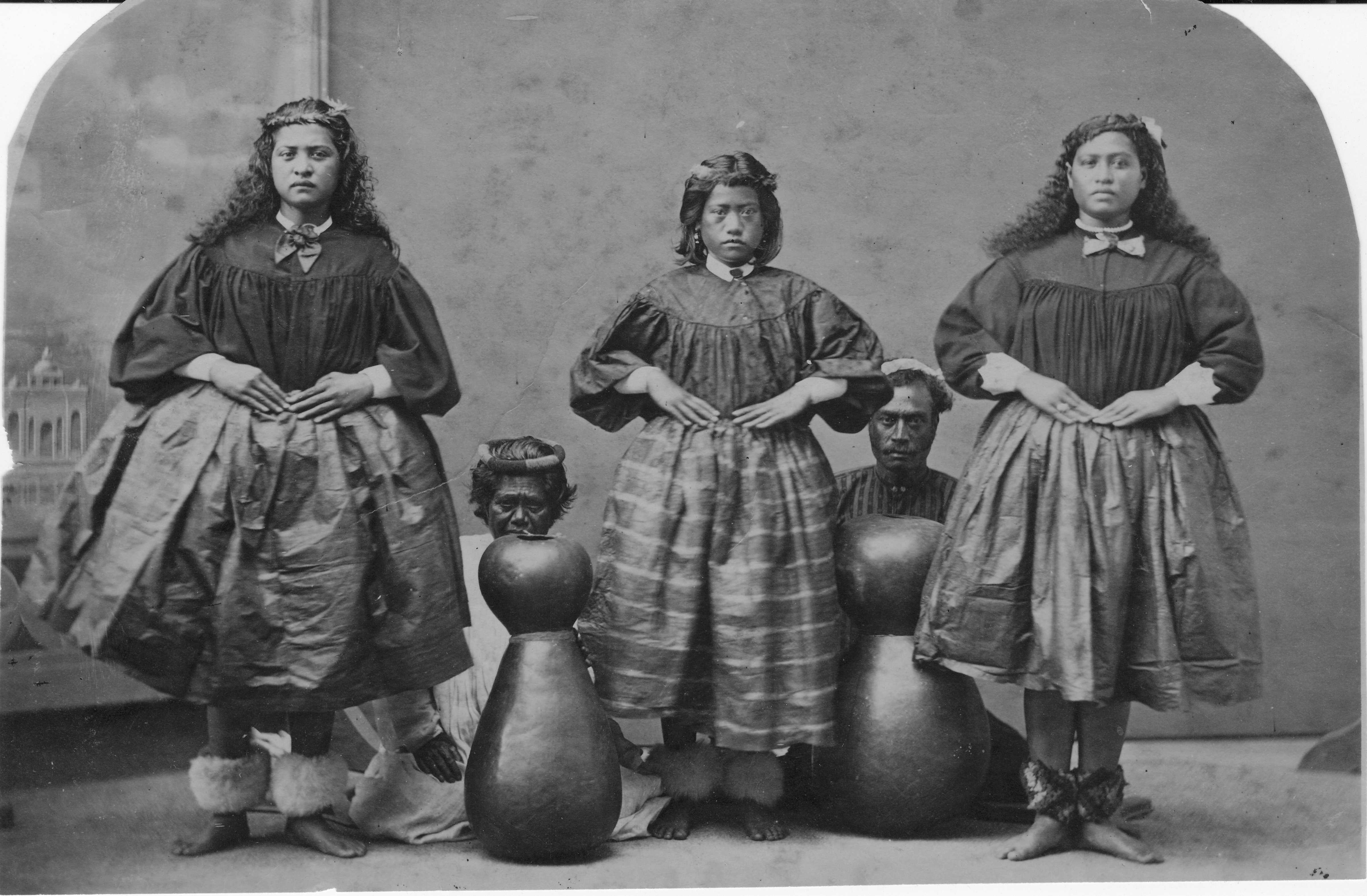 Hawaiian hula dancers photographed in J. J. Williams' photo studio.